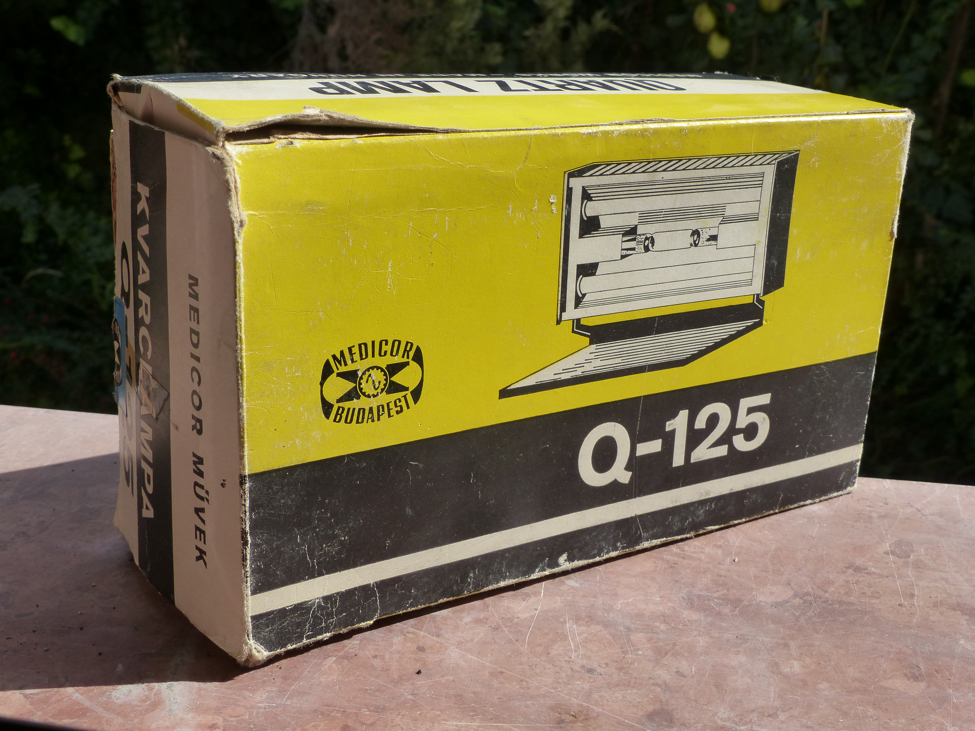 MEDICOR - Factory of Medical Instruments. Medicor Q 125 Quartz lamp.